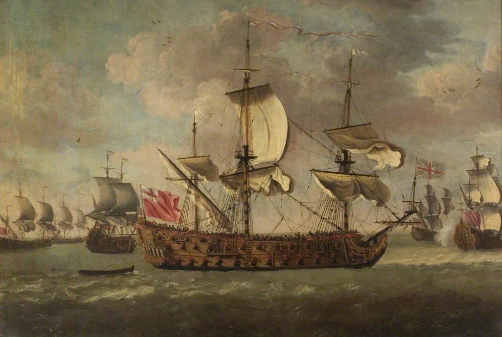 HMS 'Swiftsure', by Isaac Sailmaker Nottingham City Museums and Galleries Medium oil on canvas Measurements H 95.3 x W 139.1 cm Accession number NCM 1890-1207